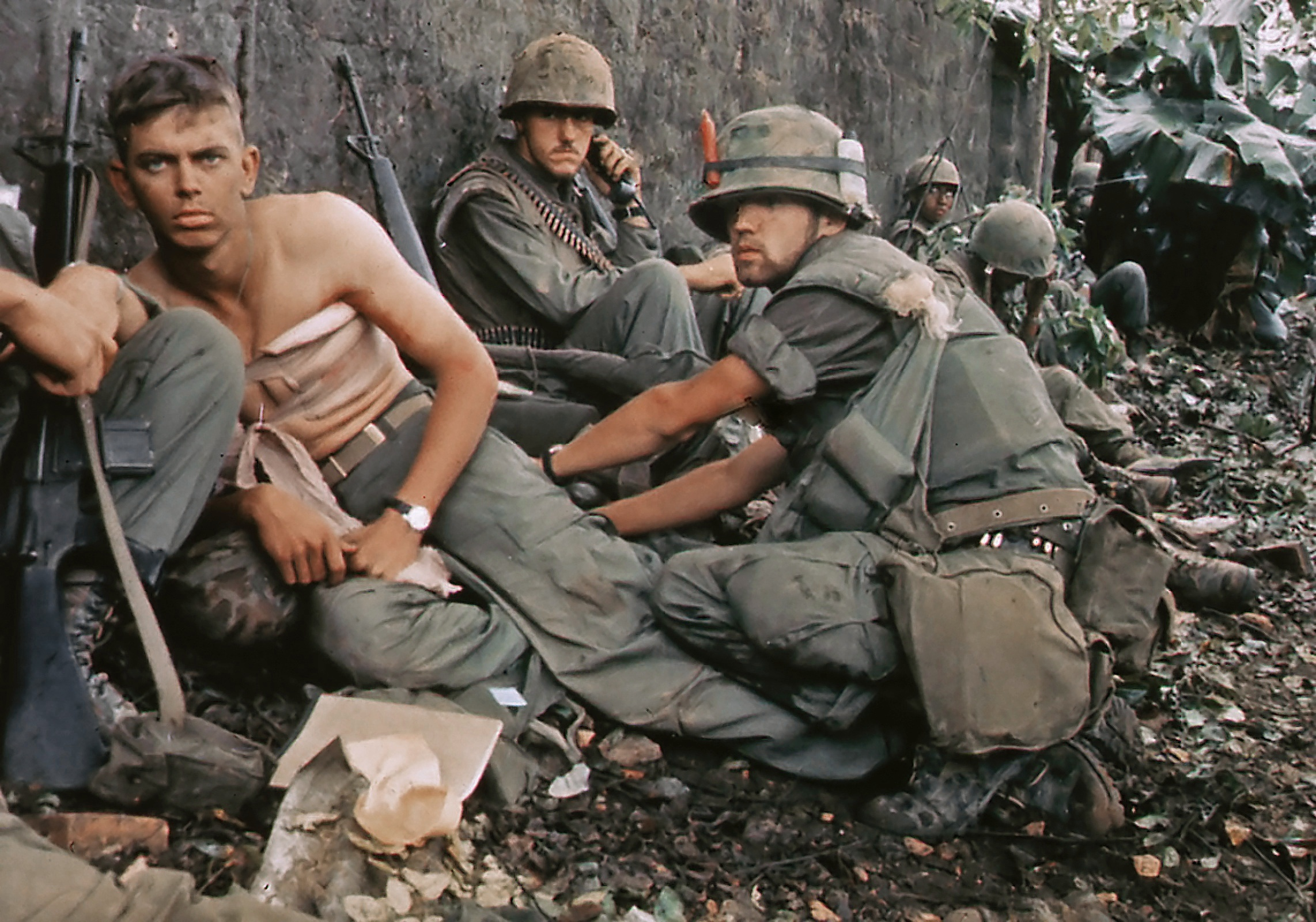 Original caption: Twentieth Century "Angel of Mercy" -- D. R. Howe (Glencoe, MN) treats the wounds of Private First Class D. A. Crum (New Brighton, PA), Company H, 2nd Battalion, Fifth Marine Regiment, during Operation Hue City.